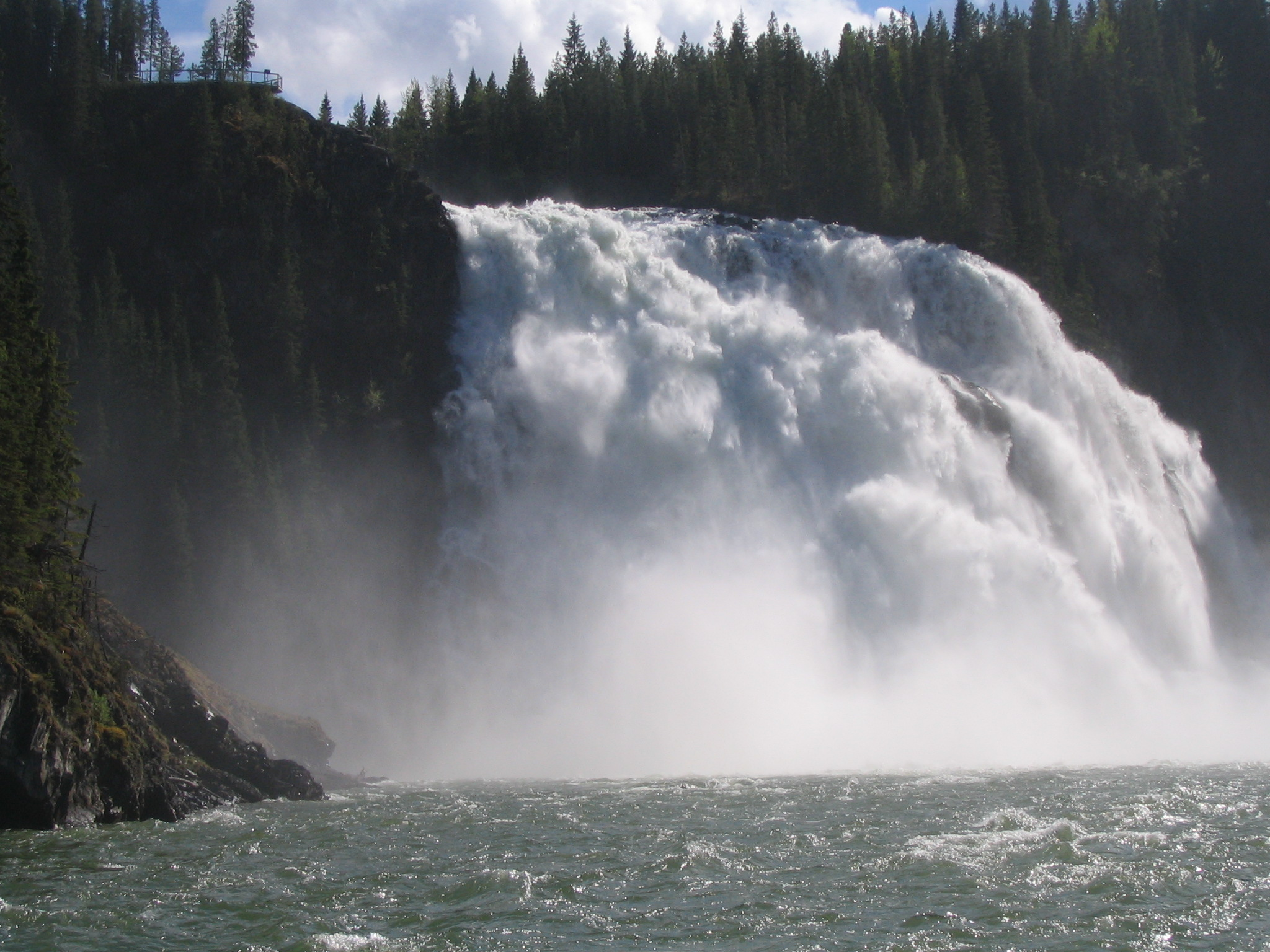 Kinuseo Falls, Tumbler Ridge, British Columbia